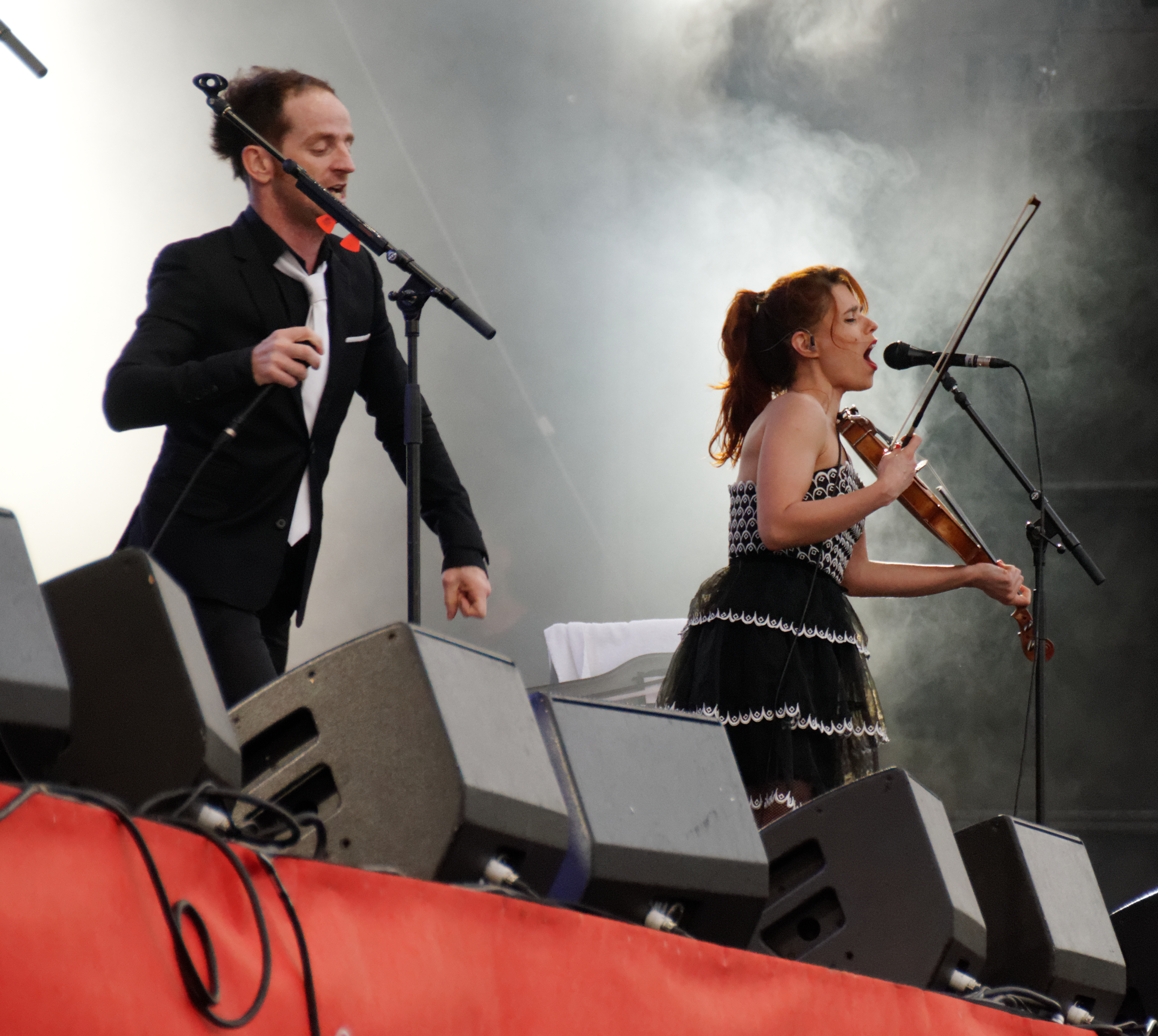 This photograph was taken with a Nikon D300 Personality rights warningAlthough this work is freely licensed or in the public domain, the person(s) shown may have rights that legally restrict certain re-uses unless those depicted consent to such uses. In these cases, a model release or other evidence of consent could protect you from infringement claims.